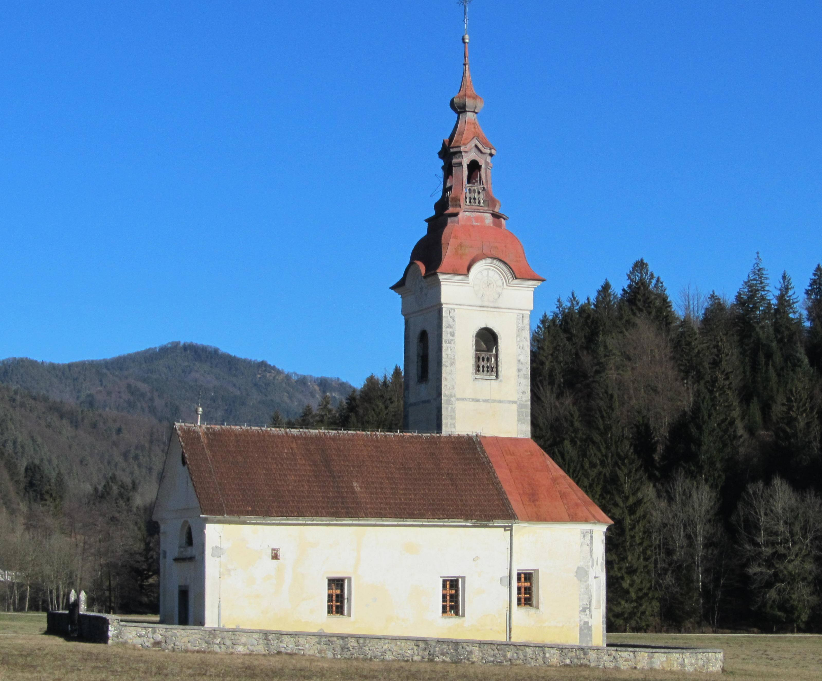 Church of the Three Kings in Briše pri Polhovem Gradcu, Municipality of Dobrova–Polhov Gradec, Slovenia